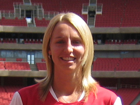 — Faye Deborah White, Football Player. Commons Attribution-Sharealike. This is one of several CC licenses. This version permits free use, including commercial use; requires that you be attributed as the creator; and requires that any derivative creator or redistributor of your work use the same license. The desired attribution text should be included as a parameter in the template.